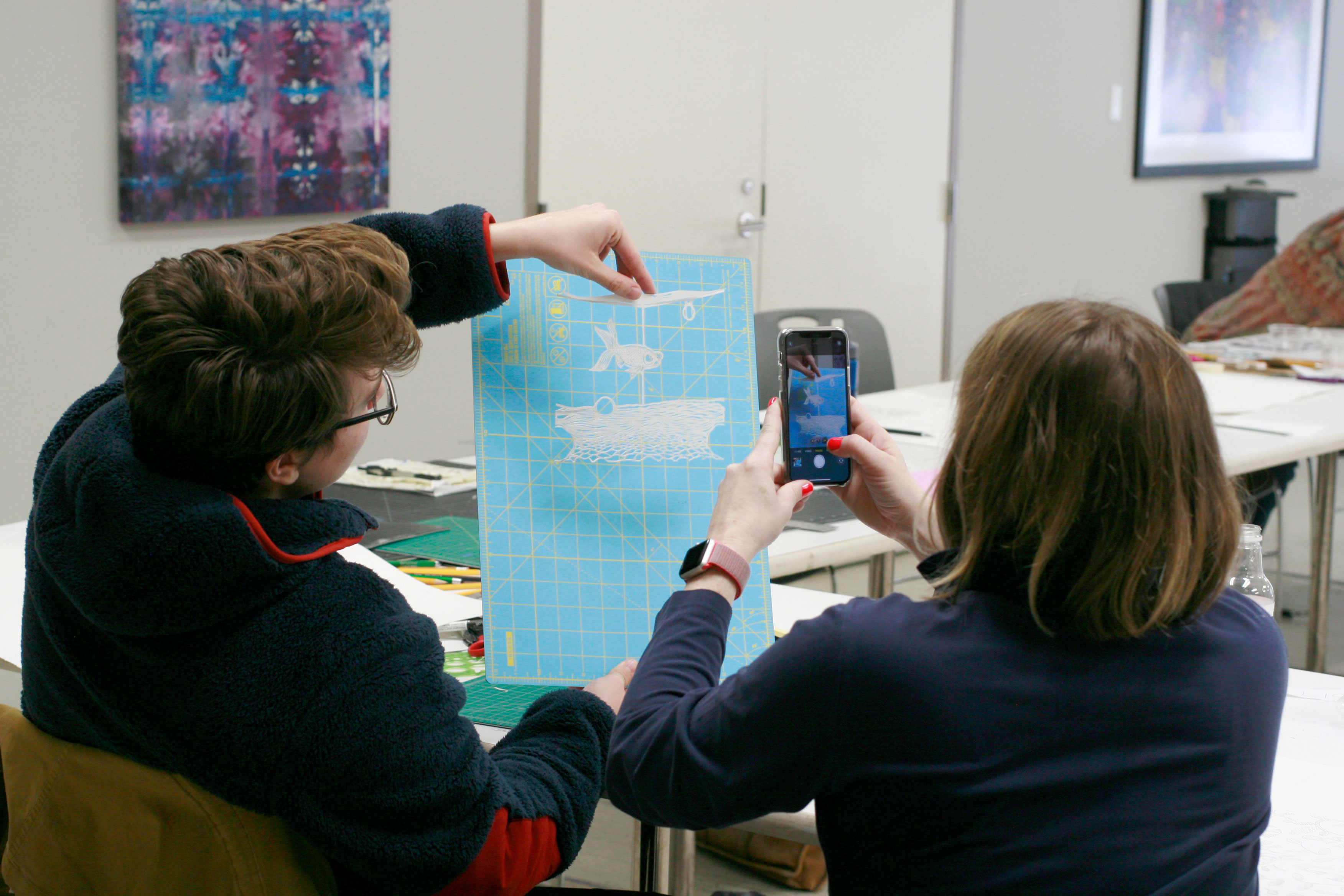 Workshop at the Dennos Museum